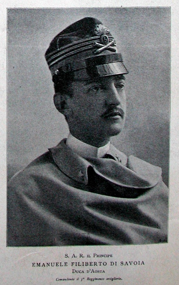 SAR Emanuele Filiberto Savoia Aosta Commander of italian 5 field artillery regiment 1895